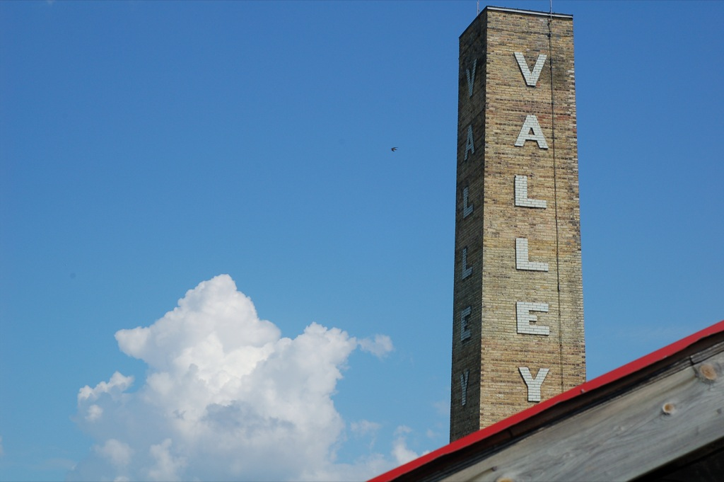 See where this picture was taken. [?] Don Valley Brick Works, Toronto, Canada